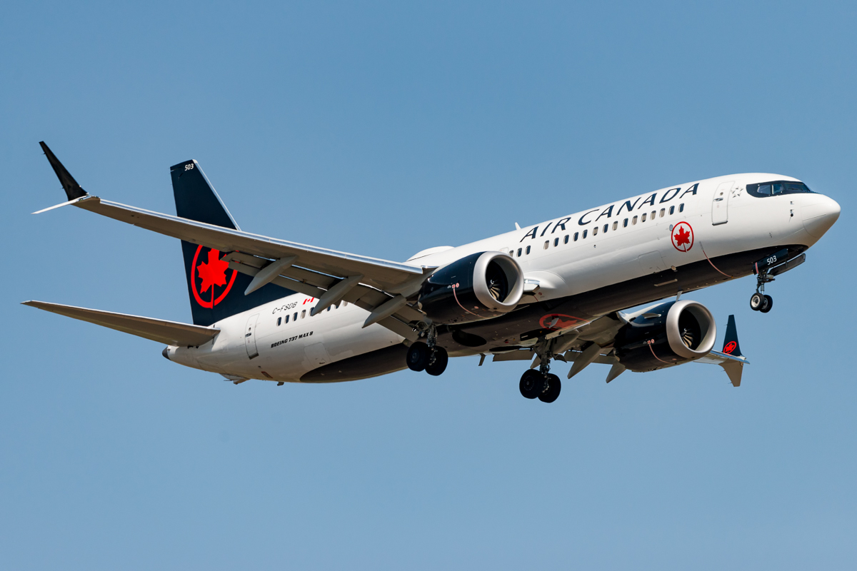 Air Canada Boeing 737 MAX 8 landing in Calgary, Alberta, Canada.